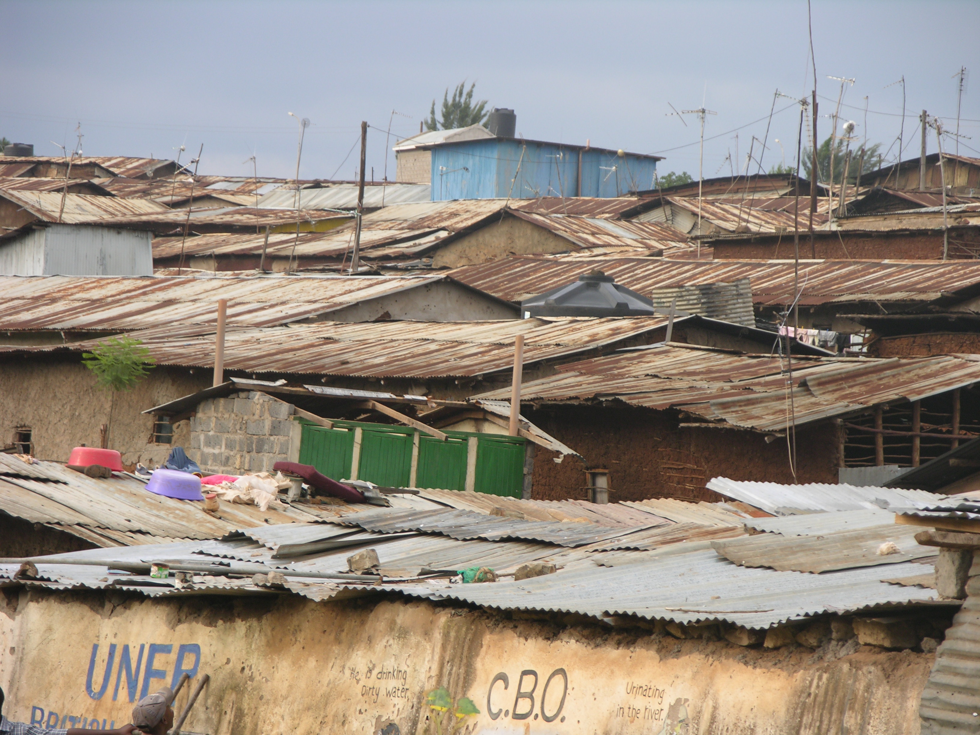 Life conditions in a urban slum